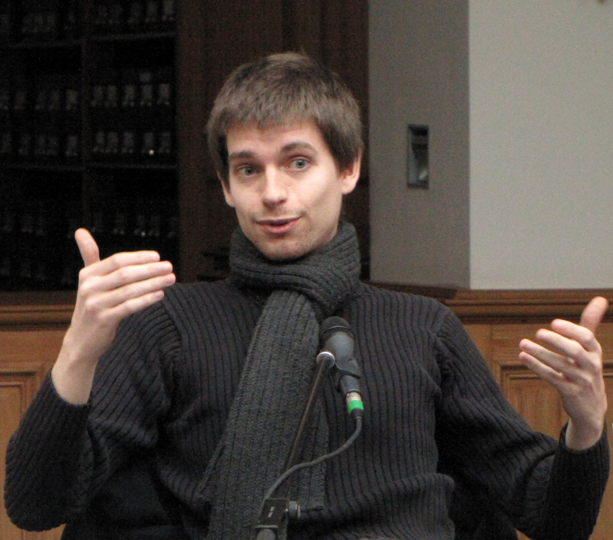 Critical Point of View (CPOV). Leipzig, September 2010. Bibliotheca Albertina.